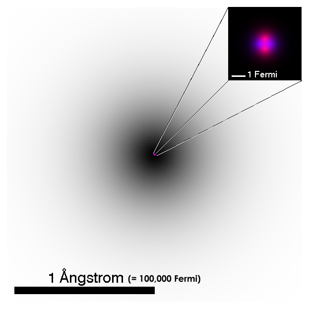 A semi-accurate depiction of the helium atom. The darkness of the electron cloud corresponds to the line-of-sight integral over the probability function of the 1s electron orbital. The magnified nucleus is schematic, showing protons in pink and neutrons in purple. In reality, the nucleus is also spherically symmetric.